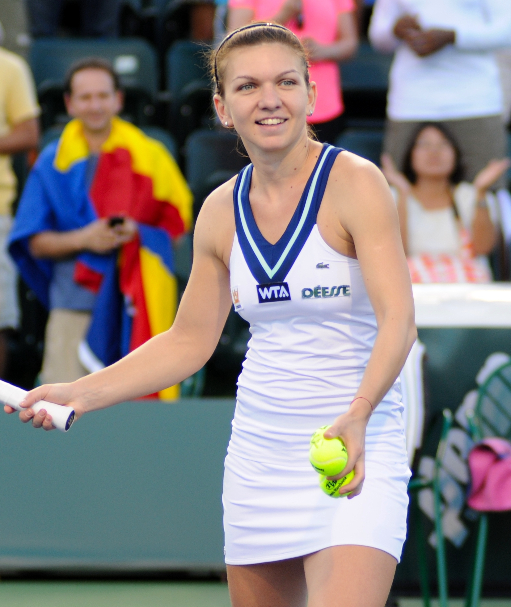 2014 BNP Paribas Open